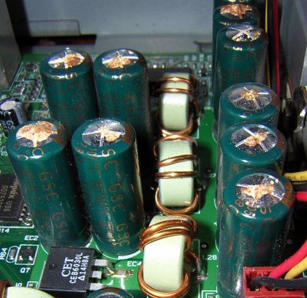 Aluminum electrolytic capacitor (green cylinders) with opened breaks at tops, as defective capacitors, or "bad caps".